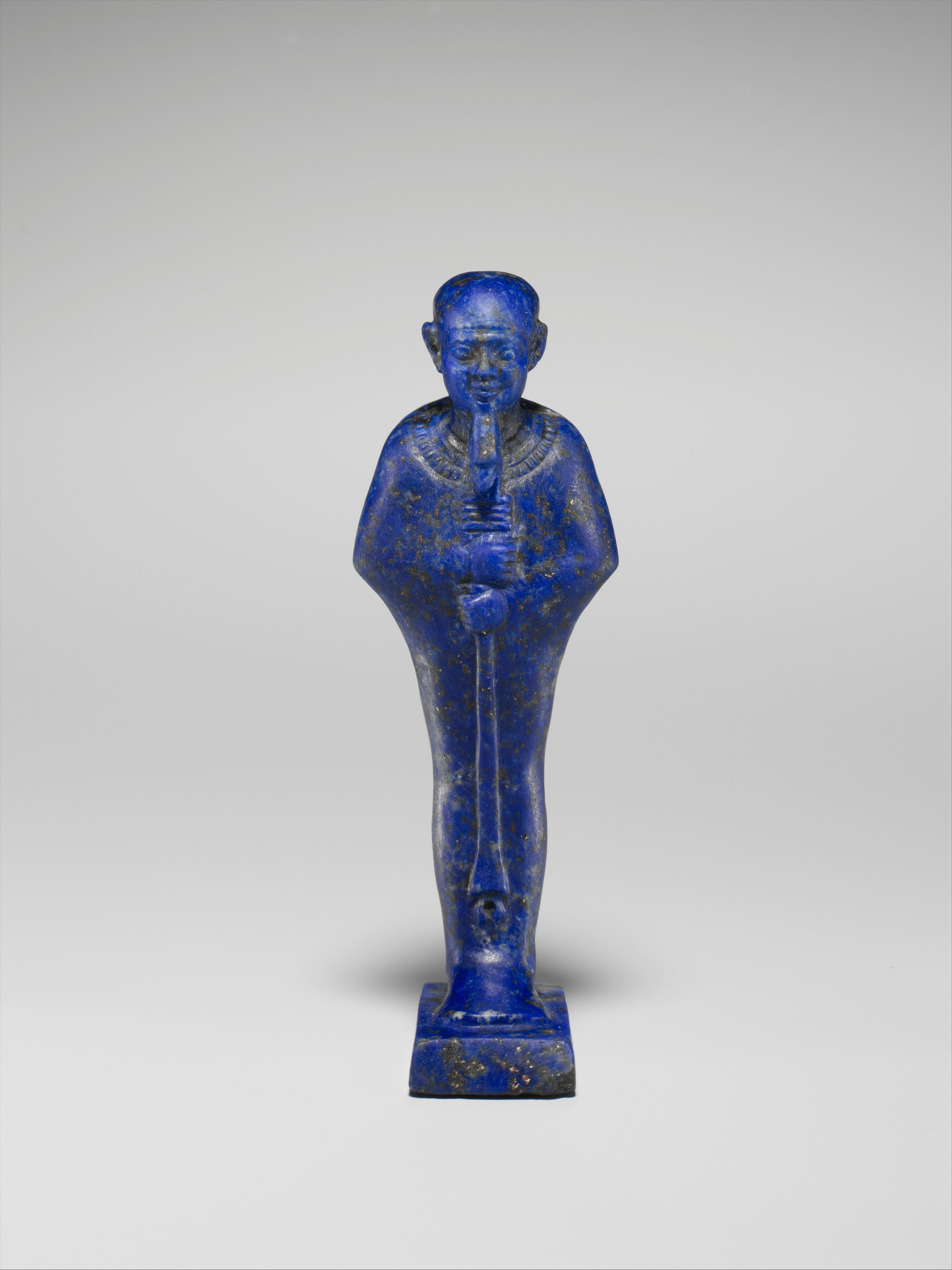 Statuette, Ptah